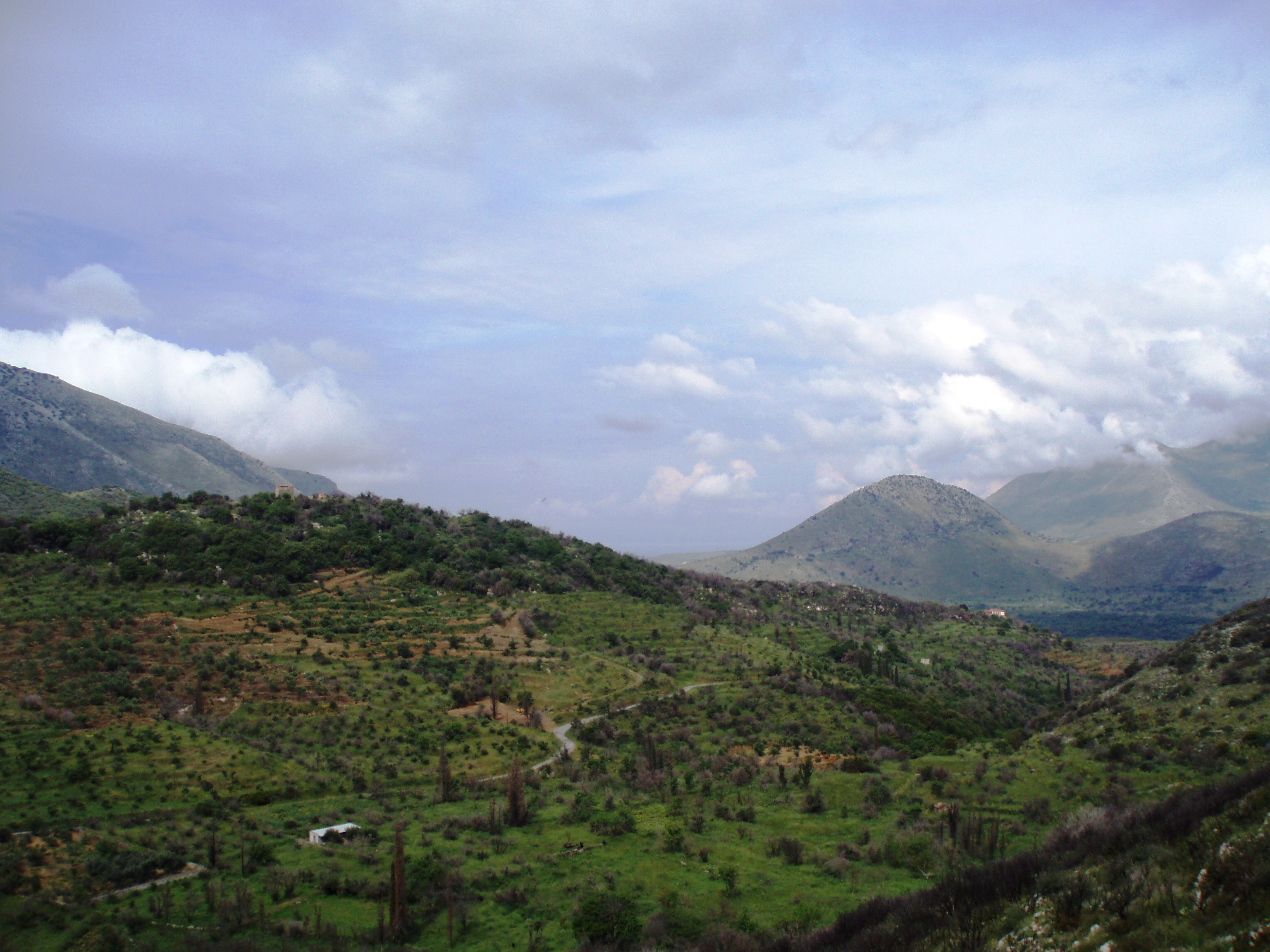 View of Karyopolis hill in Laconia prefecture, Greece